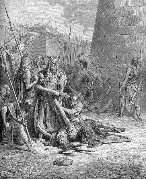 The Death of Abimelech (Jud. 9:50-56) Judges 9:52-53 So Abimelech came to the tower and fought against it, and approached the entrance of the tower to burn it with fire. But a certain woman threw an upper millstone on Abimelech's head, crushing his skull